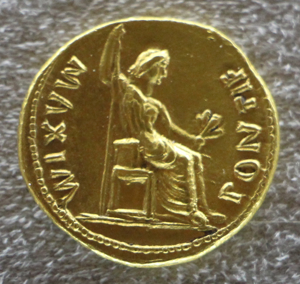 Ancient Roman coins in the Museo archeologico nazionale (Florence)